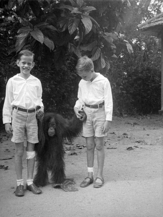 Negative. The brothers Henk and Hans Japing with an orangutan in "Rango" animal park in Medan, the capital of the province of North Sumatra, Indonesia.